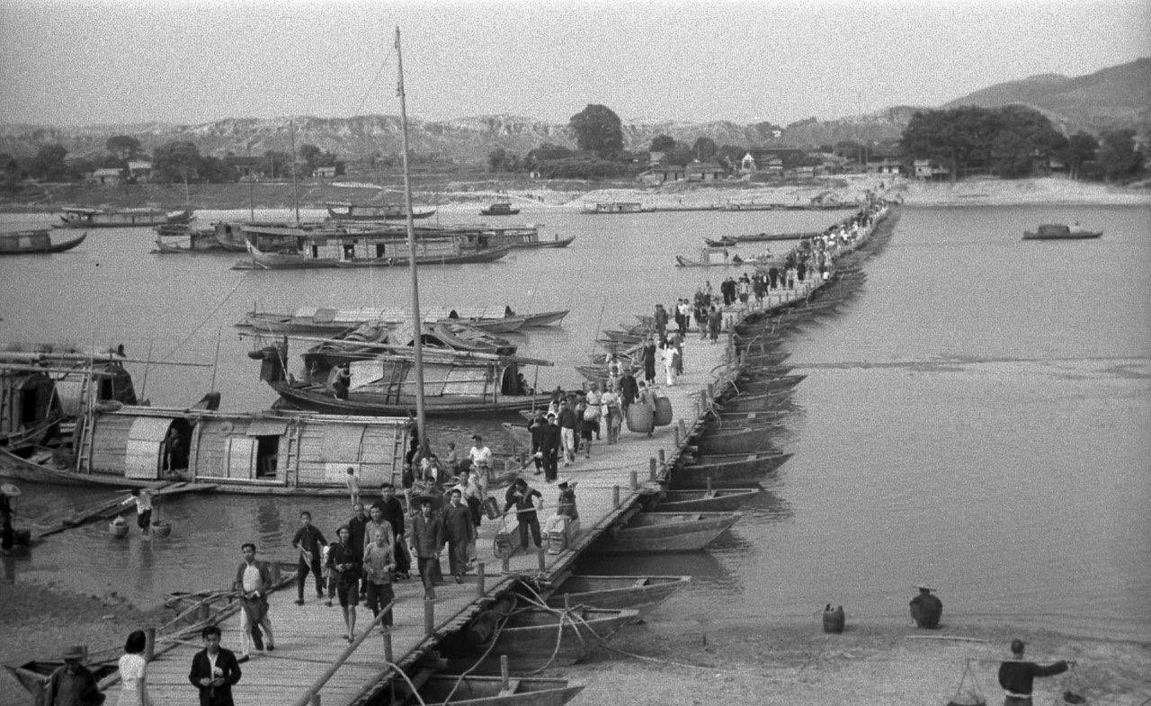 Gannan during the early 1940s. Chiang Ching-kuo was appointed as commissioner of Gannan Prefecture (贛南) between 1939 and 1945.